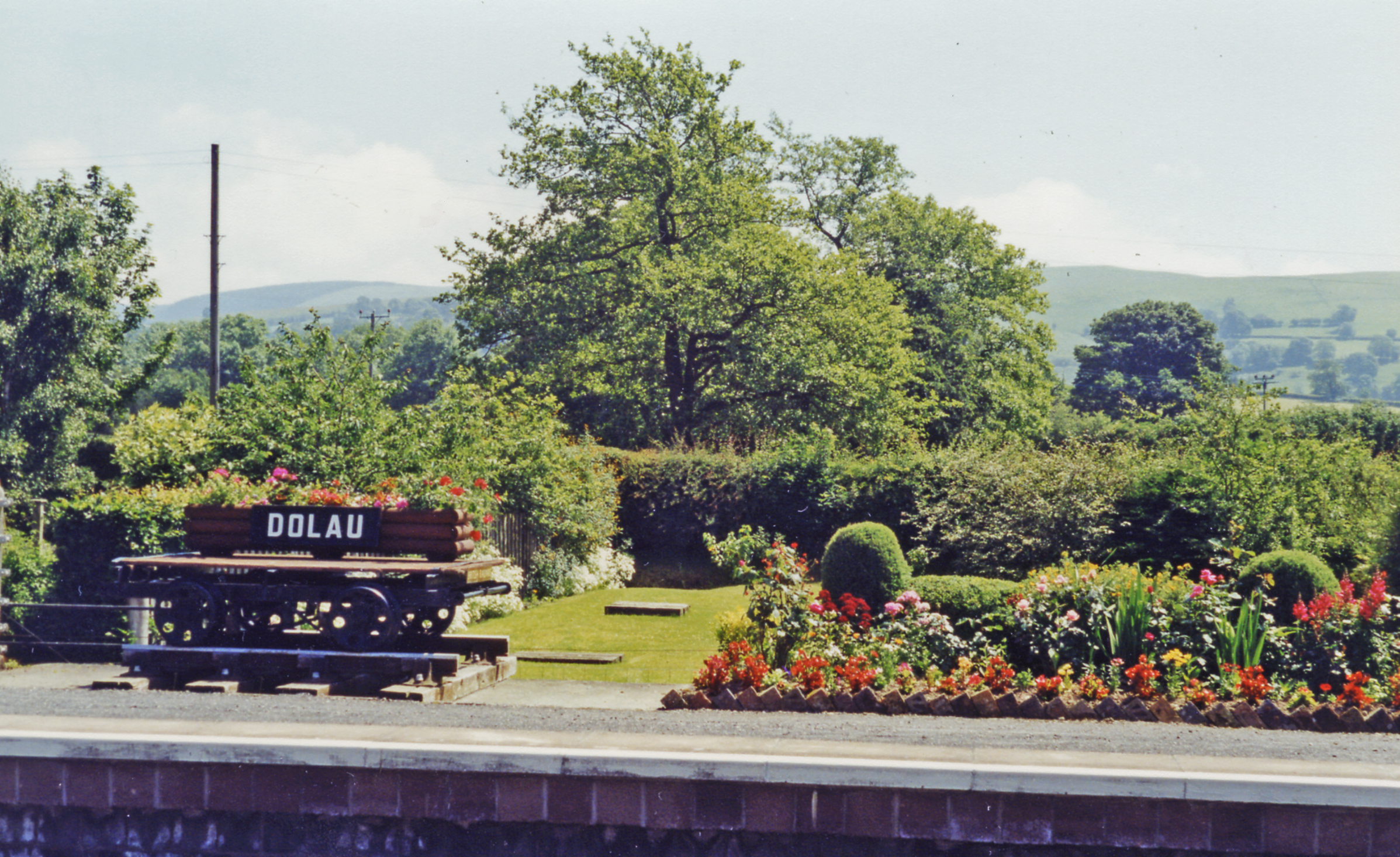 Dolau station - garden. View SE to Radnor Forest: ex-LNWR Craven Arms - Swansea (Central Wales) line, formerly a Halt, now a rather special station, celebrated for its garden, served by the 'Heart of Wales' service from Shrewsbury to Swansea (via Llanelli since 6/64). A wagon from a narrow-gauge mineral line on display is from [where?].